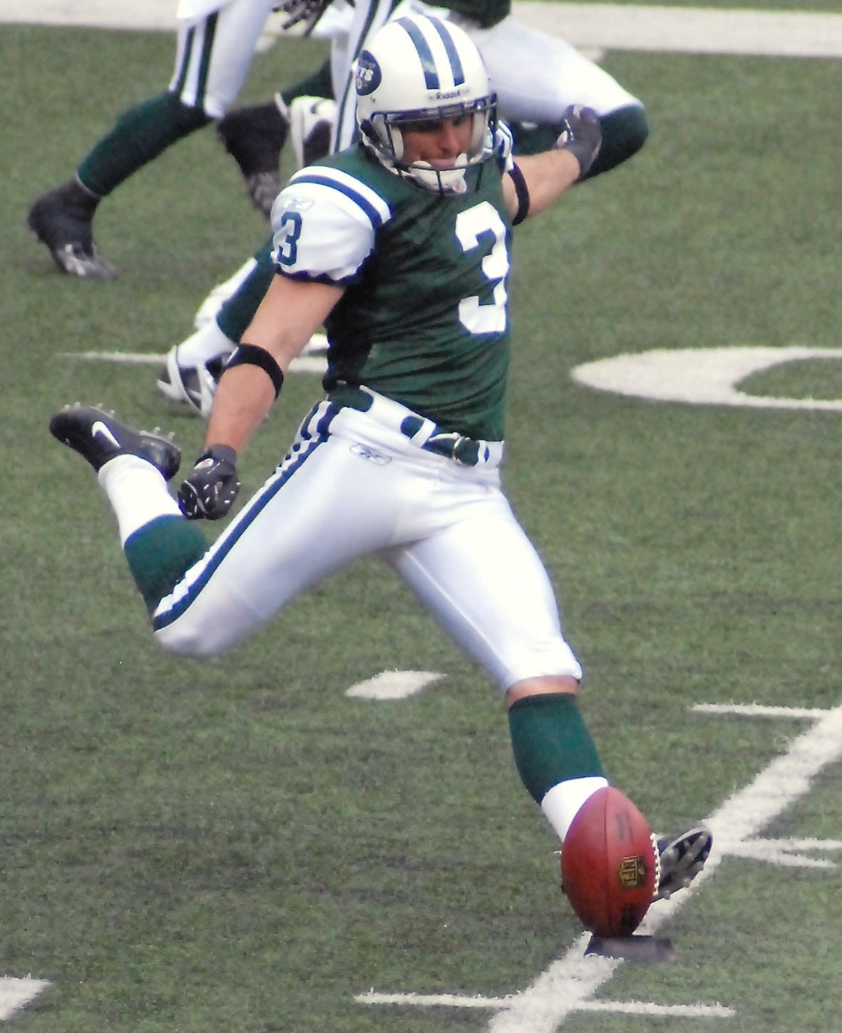 New York Jets kicker Jay Feely in action in the game against the St. Louis Rams on November 9, 2008.